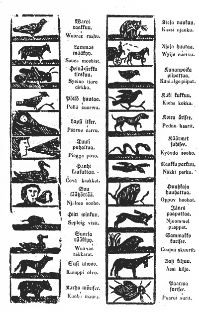 Page from a A-B-C book that is now public domain